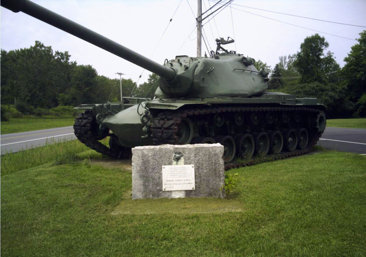 M103A2 heavy tank in front of Armed Forces Reserve Center Syracuse in Syracuse, New York. The plaque is from the Marine Corps League of Greater Syracuse dedicating the monument to Marines from Syracuse and the surrounding area who served and gave their lives for our country.